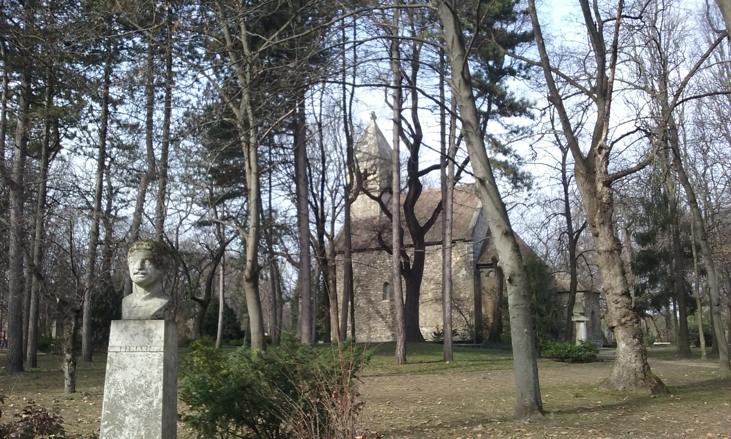 Statue of János Bihari, Hungarian composer on Margaret Island, Budapest, Hungary, on 29 February 2020